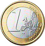 Common (or European) side of a €1 coin. It is copyrighted by the European Union.